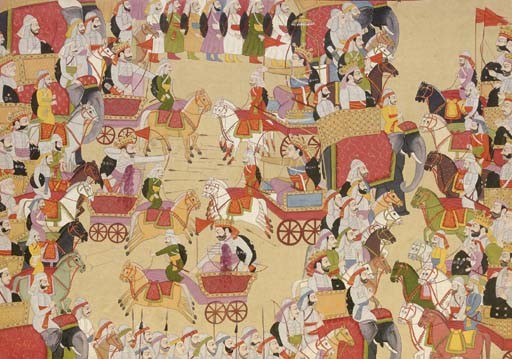 India, Kangra, circa 1800 Depicting a battle scene with the central figures on horse-drawn chariots with bows and arrows, with numerous figures on horseback and elephants engaging, supported by foot soldiers above and below, the noblemen depicted wearing crowns and with individualized facial features, many identified with inscriptions 17 3/4 x 12 3/4 in. (44.8 x 32.2 cm.) Notes: INDIAN MINIATURE PAINTINGS Another leaf from this series, Draupadi and Kunti with the Pandavas, was sold at Christie's New York, 22 March 2000, lot 164. Artist or Maker: INDIA, KANGRA, CIRCA 1800